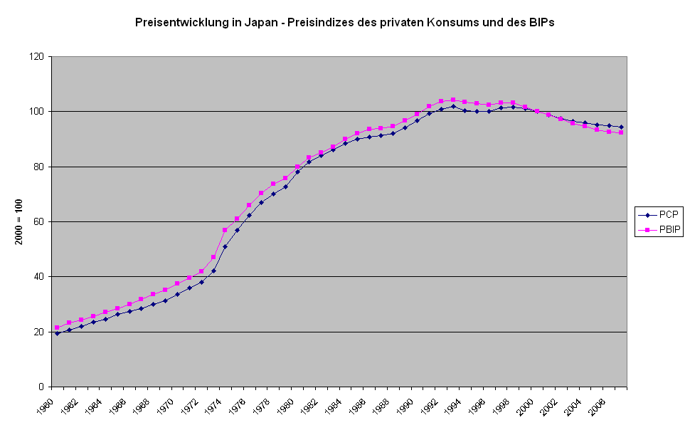 Price indices for private consumption and gross domestic product Japan